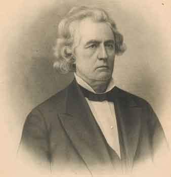 Kentucky Senator Archibald Dixon